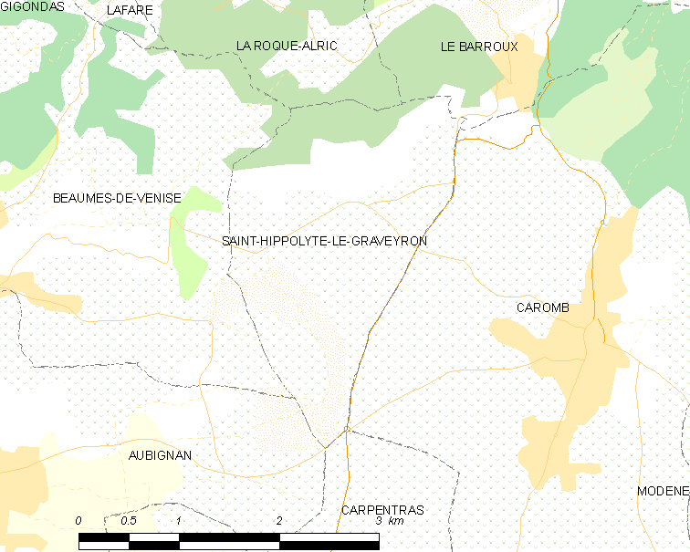 Map of French municipality Saint-Hippolyte-le-Graveyron